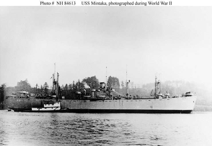 Mintaka (AK-94 underway during World War II, with a tug alongside. US Navy photo # NH 84613 from the collections of the US Naval Historical Center, courtesy of Donald M. McPherson.